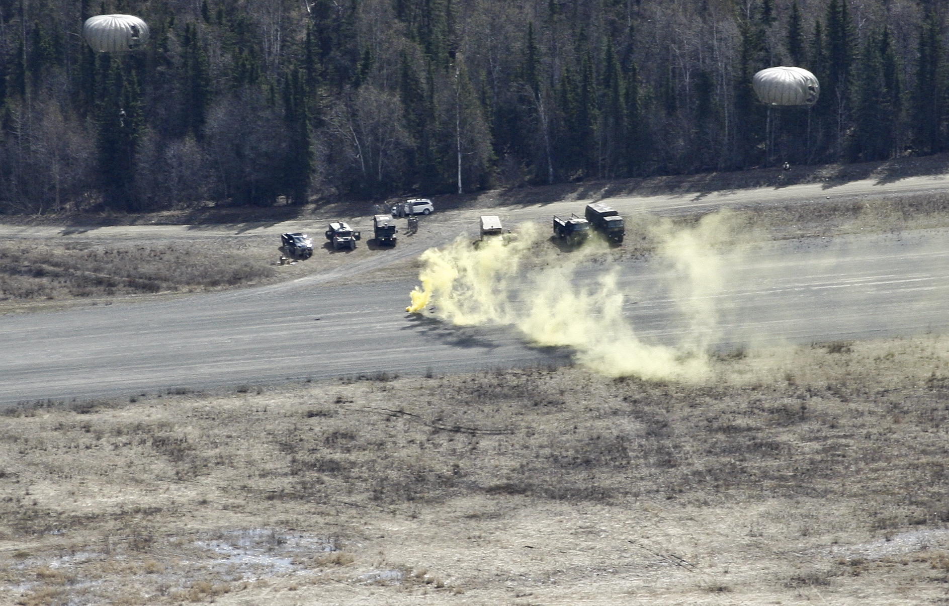 With smoke showing wind direction, Mobile Pathfinder Course students prepare to land after parachuting from UH-60 Black Hawk helicopters, onto Malamute Drop Zone, May 23, 2013. Over 40 soldiers put their skills to the test as pilots and crews from the 1st Battalion, 207th Aviation Regiment, Alaska Army National Guard, provided aviation support. The three-week course, conducted by cadre from Headquarters and Headquarters Company, 1st Battalion, 507th Parachute Infantry Regiment (U.S. Army Pathfinder School), Fort Benning, Ga., instructs students in Air Traffic Control, Medical Evacuation Operations, Sling Load Operations, Helicopter Landing Zones, Air Assault Planning, Pathfinder Employment, and Drop Zone Operations. Those soldiers who complete the course will earn the coveted Pathfinder Badge.